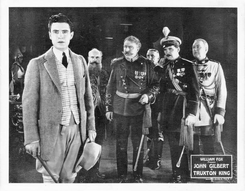 Lobby card for the American drama film Truxton King (1923) with Mark Fenton, John Gilbert, Frank Leigh, Willis Marks, Rube Miller, and Richard Wayne. The item has no copyright markings on it as can be seen in the links above. At bottom right is Made by Ilco NY USA.